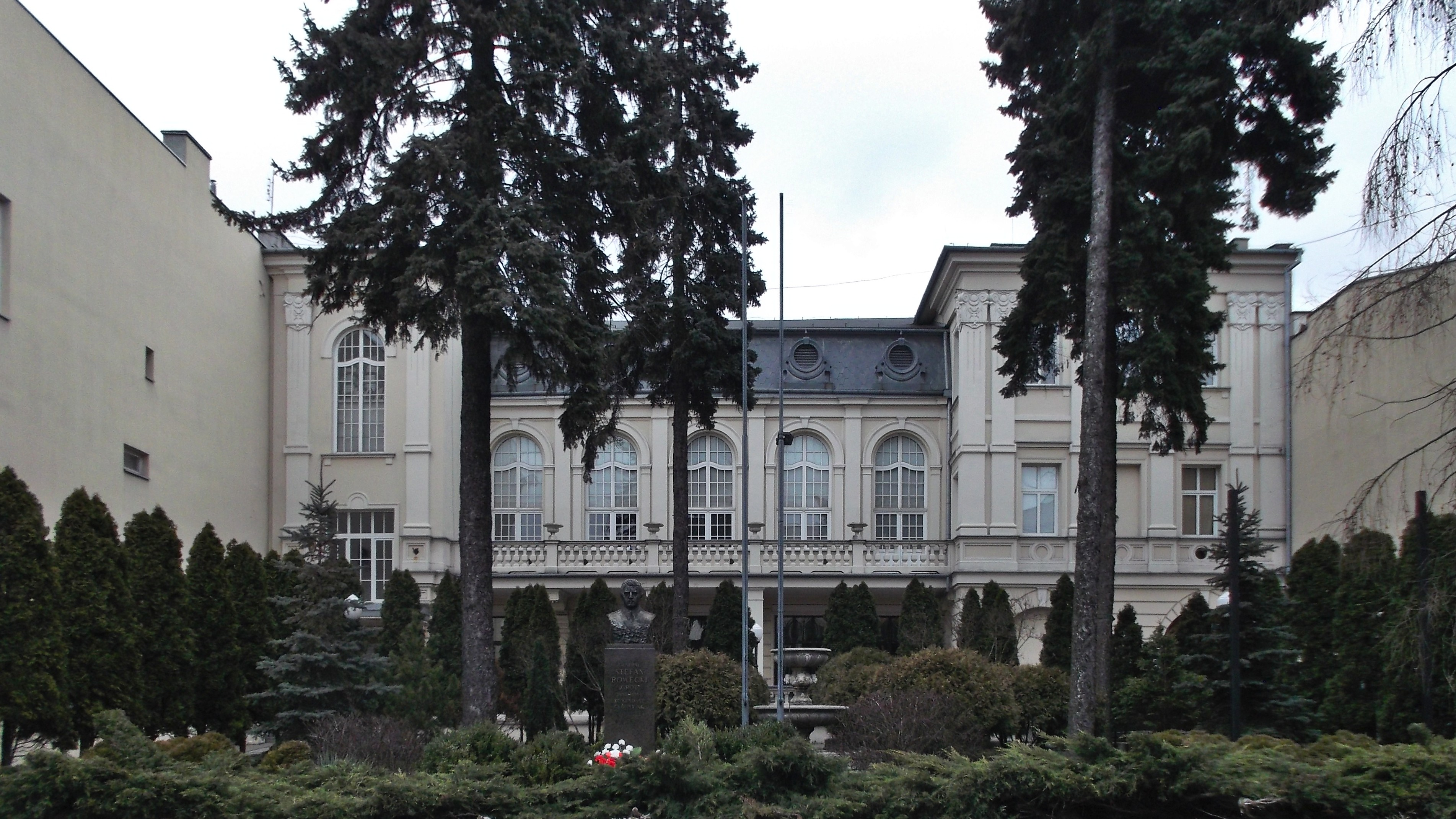 Builiding, 12 3 Maja Street in Piotrków Trybunalski in Poland (Municipal Culture Center).